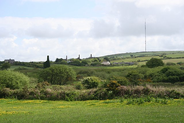 Across Newton Moor towards Treskillard. Note the four chimneys of mines which used to work the Great Flat Lode. In the distance is the transmitter mast on Penventon Hill.